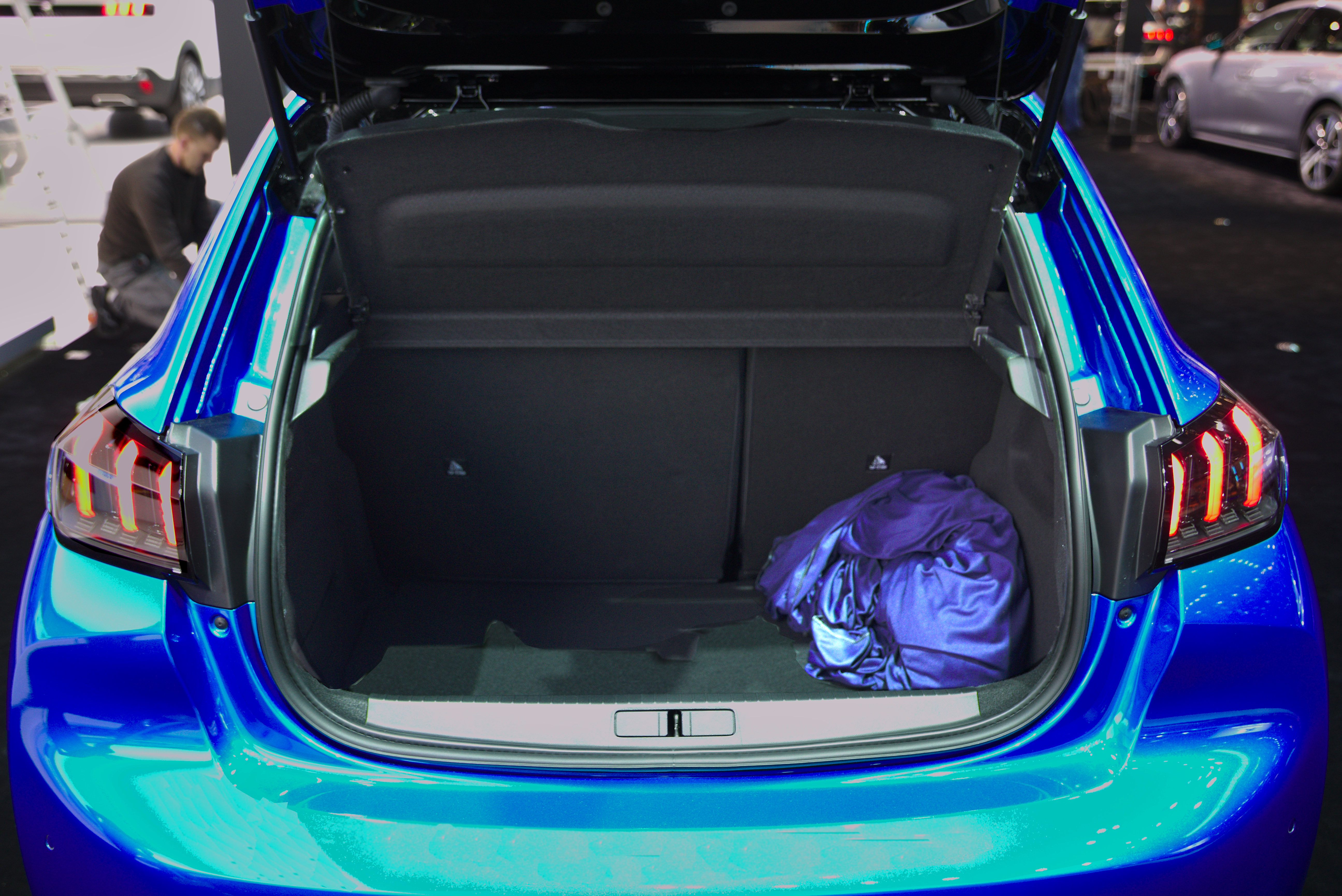 Peugeot 208 GT-Line at Geneva Motor Show 2019